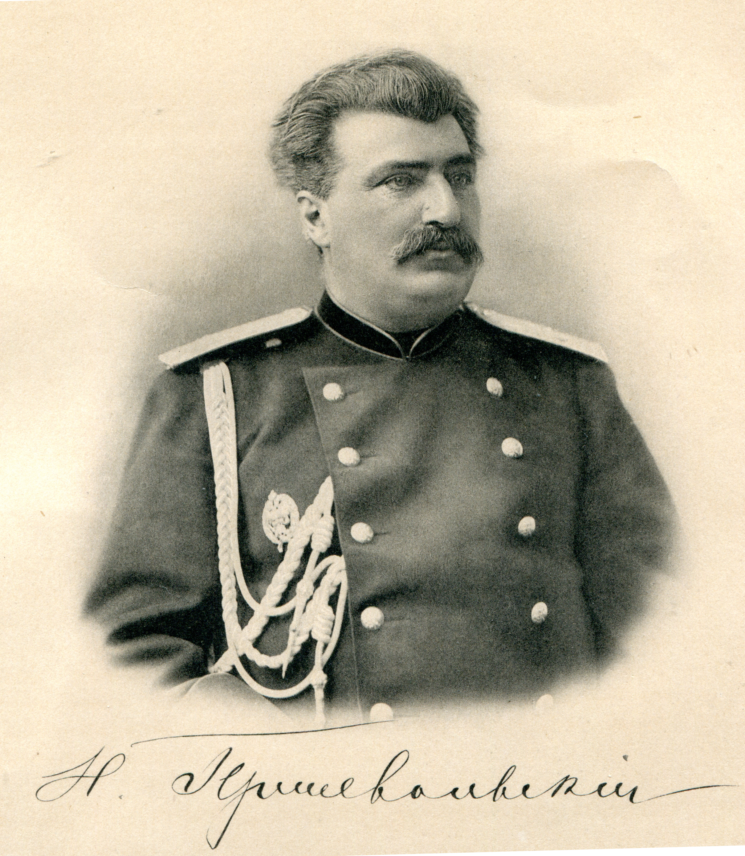 Nikolai Przevalski the famous Russian explorer